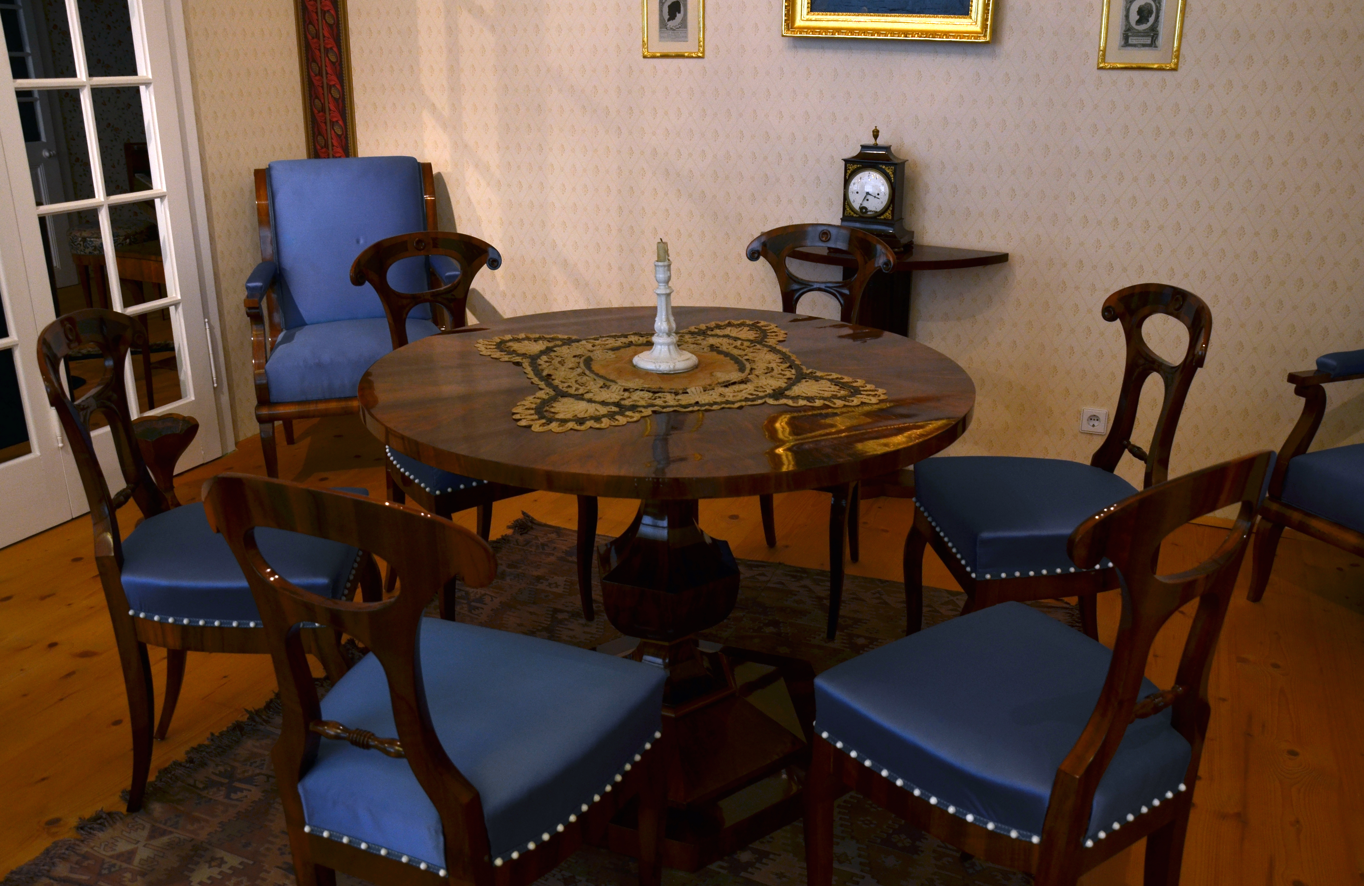 Imperial Furniture Collection ( Kaiserliches Hofmobiliendepot ) in Vienna. Salon, 1830, Biedermeier style.